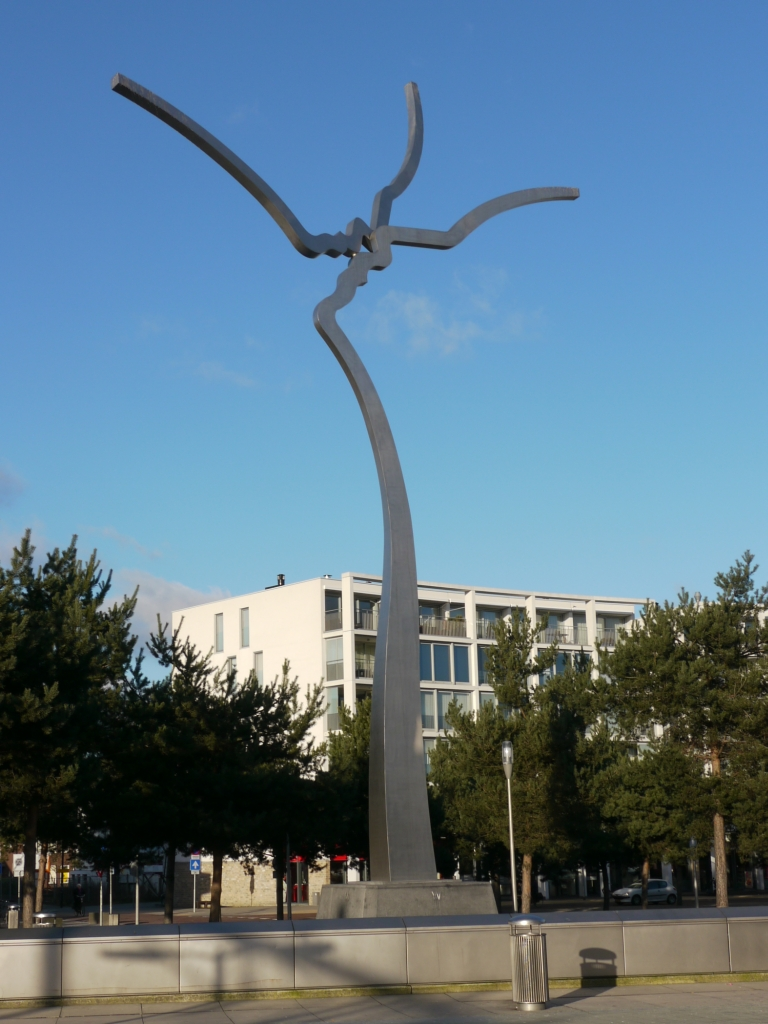 Statue 'De Kus' (the Kiss) at Apeldoorn central train station, representing the wedding kiss of his Royal prince Willem Alexander and princess Máxima.